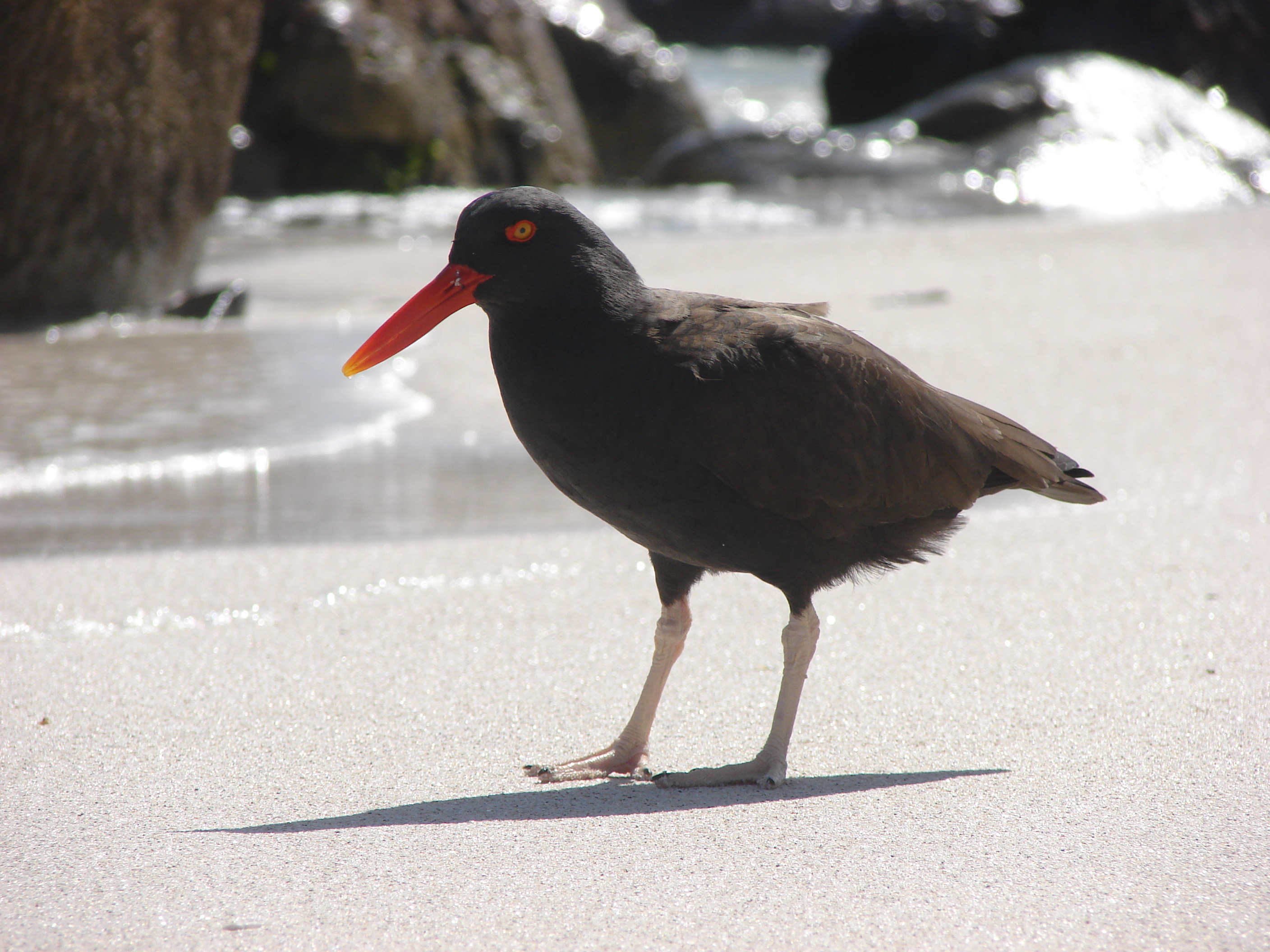 A Blackish Oystercatcher (haematopus ater) standing on the coast of Bahía Inglesa in Chile. Photo taken with Sony DSC-H2 camera.